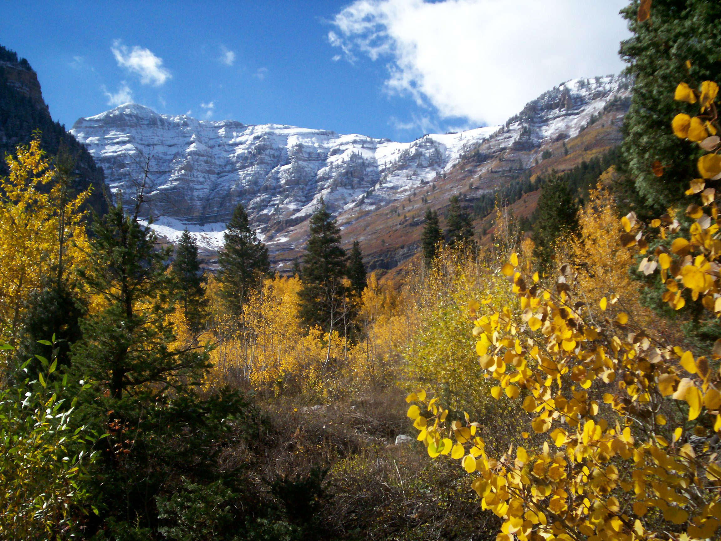 The east side of Mount Timpanogos in Autumn 2007 by David Jolley.